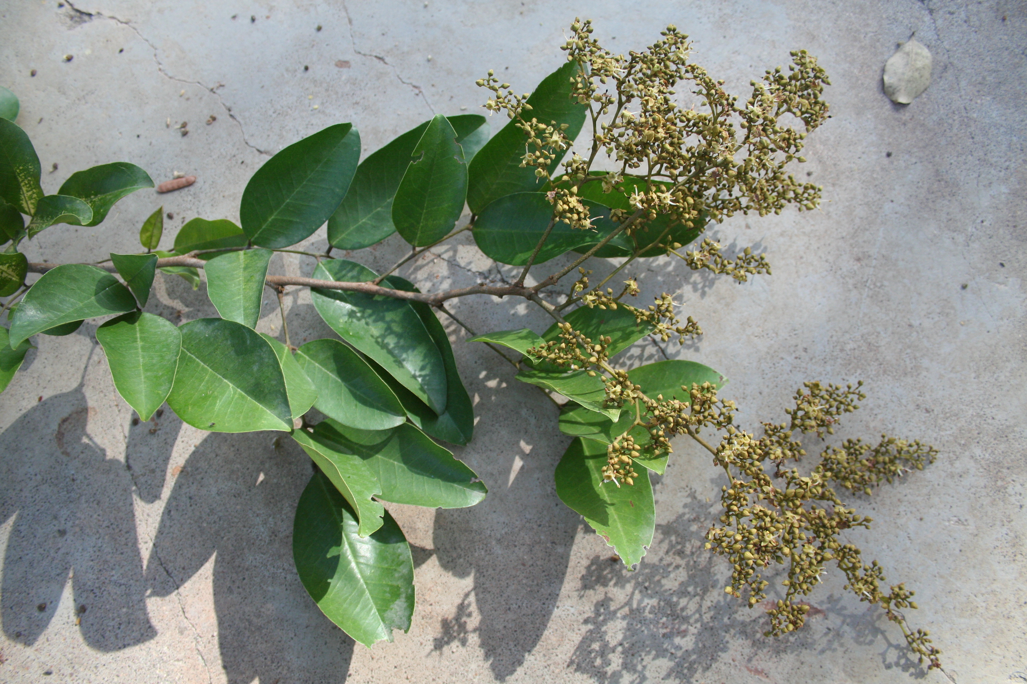 Dialium guineense from the gallery forest along the Arly river, Arly NP, Burkina Faso